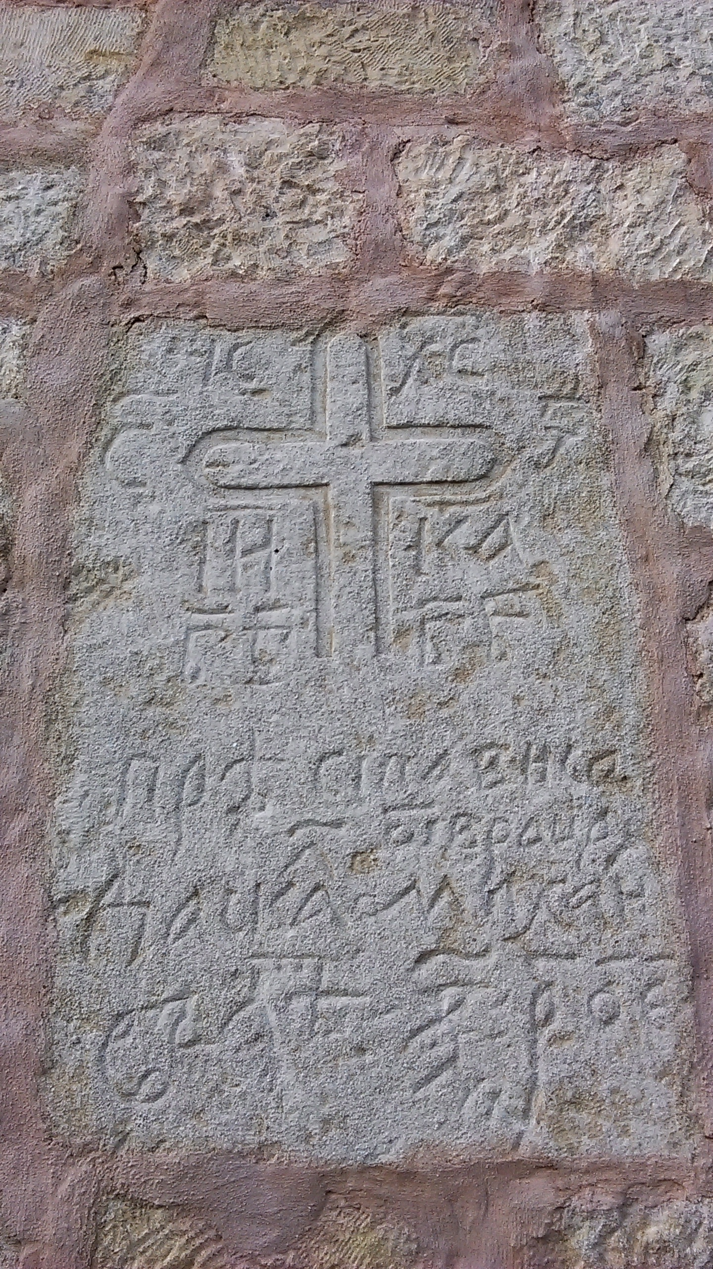 Glagolitic inscription at Church of St. Nickolas the Wonderworker in Razgrad